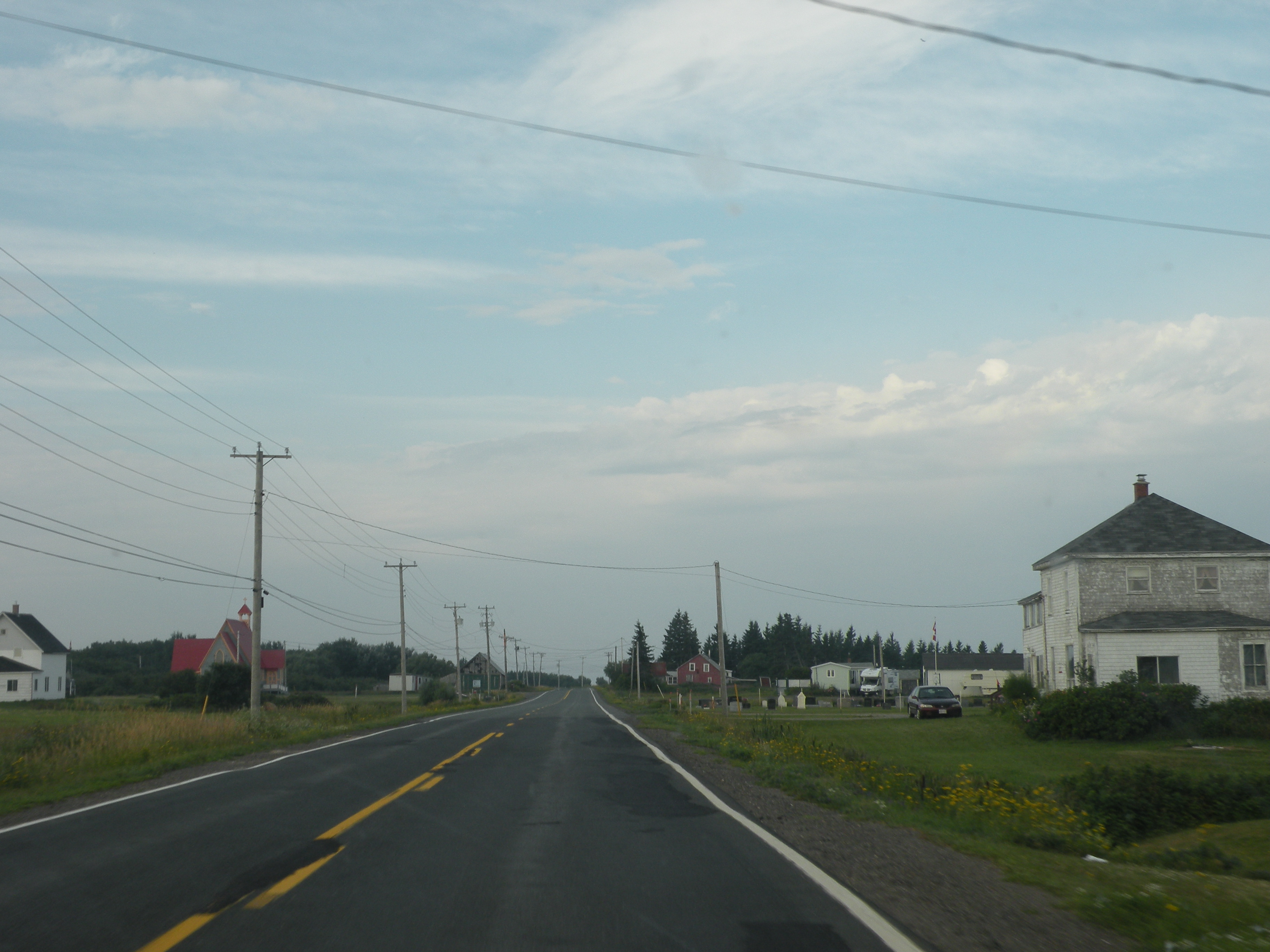 Clifton, New Brunswick.